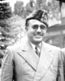 Former Prime Minister of Jammu and Kashmir